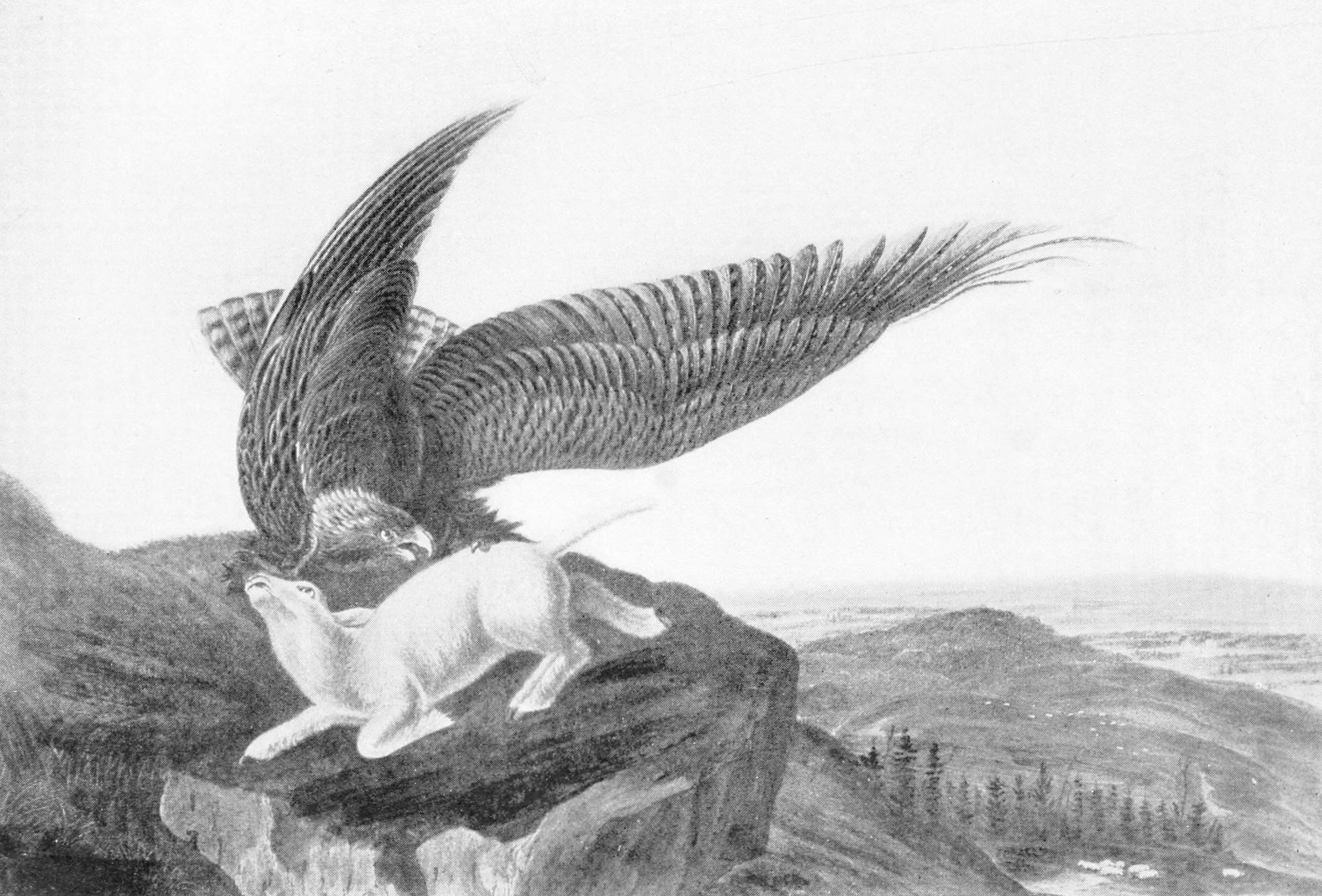 Image from scanned version of Audubon and His Journal from published in 1899 and in the Public Domain